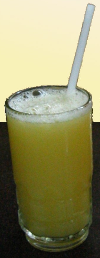 Cropped from the original using GIMP 2.6.10.